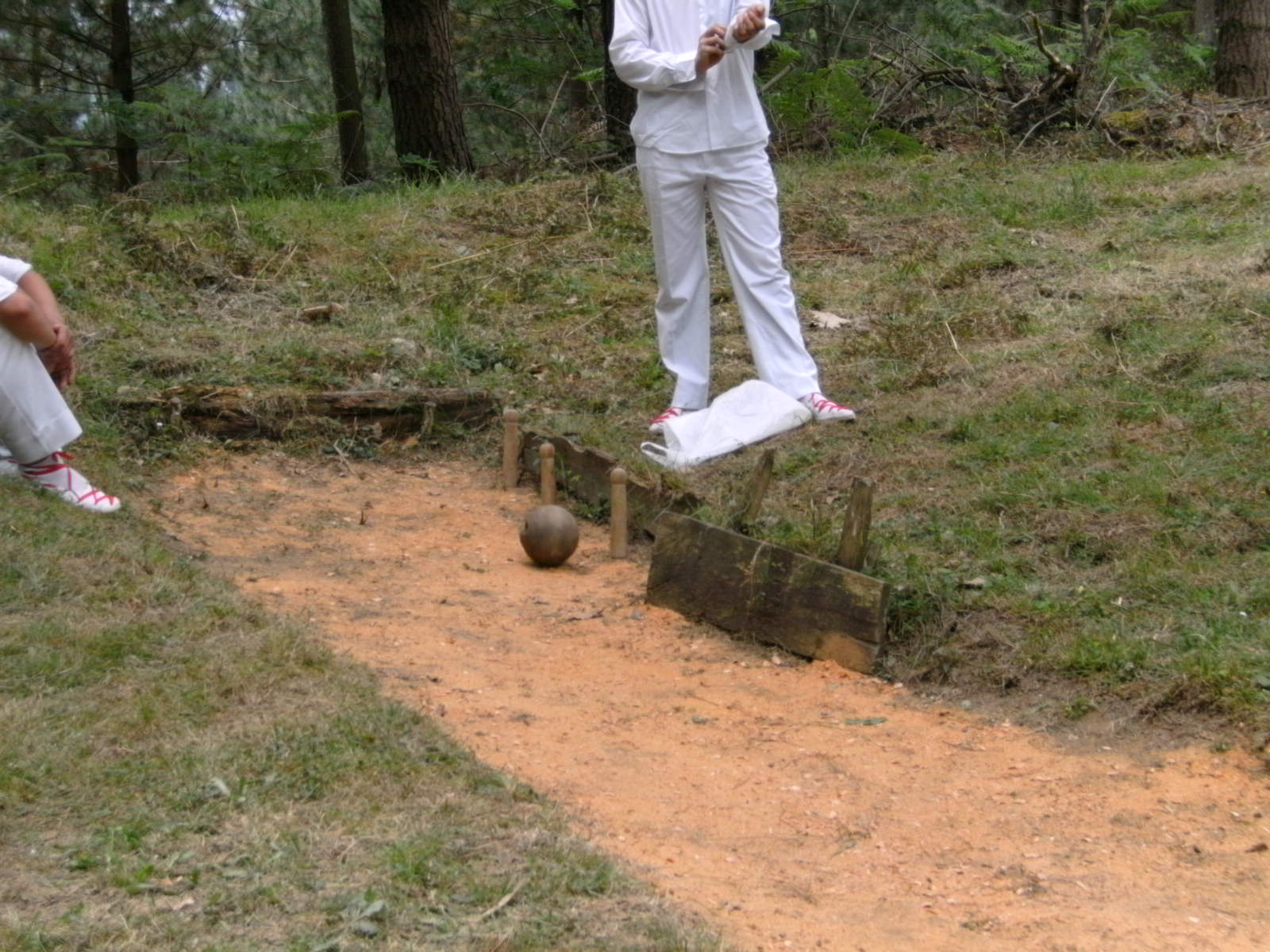 Playing Zabaleko hiru txirlo, a variant of Basque dirt bowls in Urdaiaga country chapel (Berriz, Biscay, Basque Country)